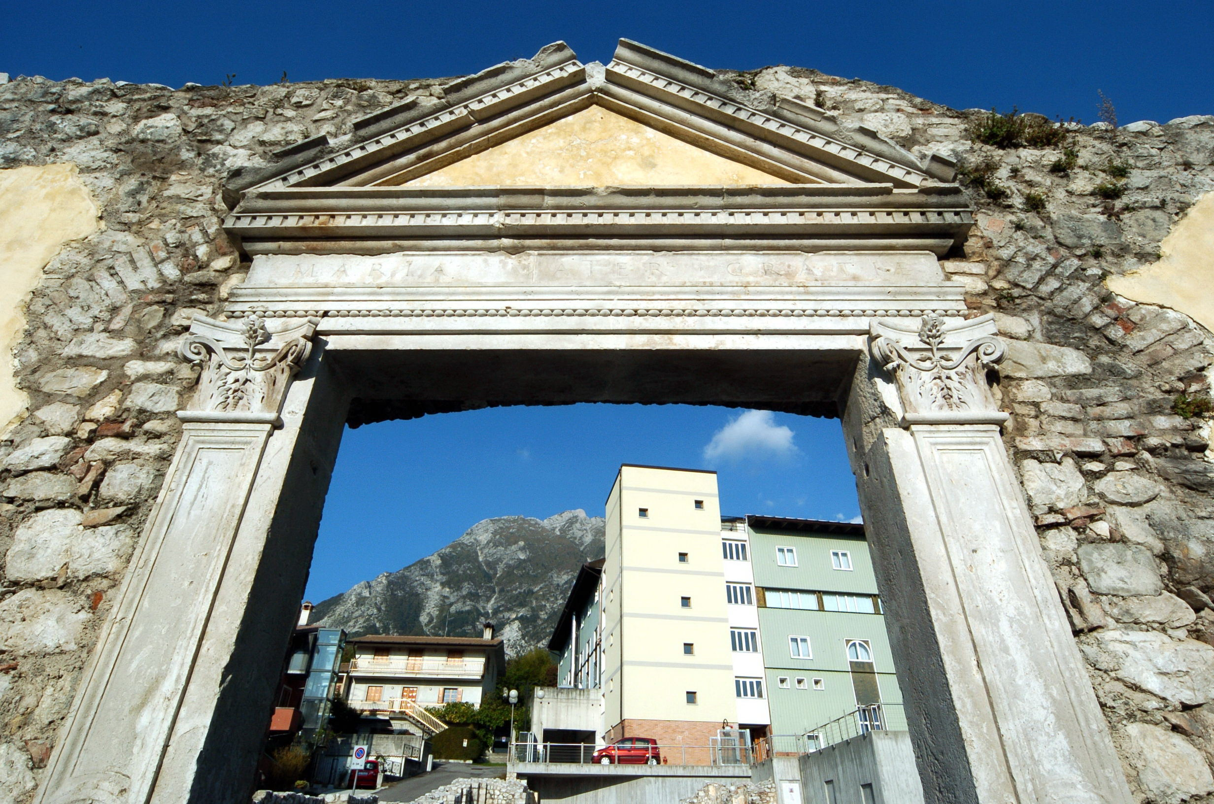 Hulk of the “Chiesa della Beata Vergine delle Grazie”, as a result of the earthquake on May 6th, 1976, municipality Gemona, province Udine, Friuli, Italy